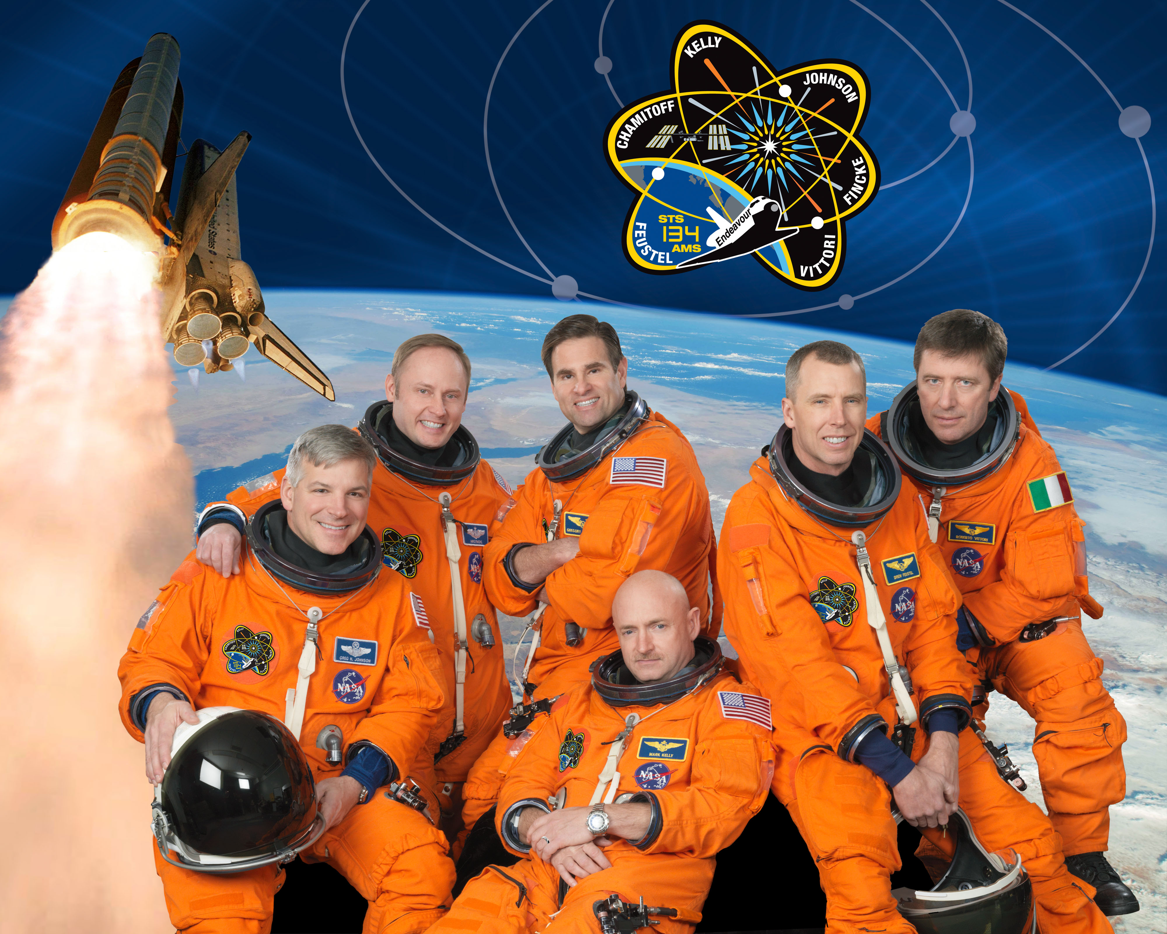 Attired in training versions of their shuttle launch and entry suits, these six astronauts take a break from training to pose for the STS-134 crew portrait. Pictured clockwise are NASA astronauts Mark Kelly (bottom center), commander; Gregory H. Johnson, pilot; Michael Fincke, Greg Chamitoff, Andrew Feustel and European Space Agency's Roberto Vittori, all mission specialists.